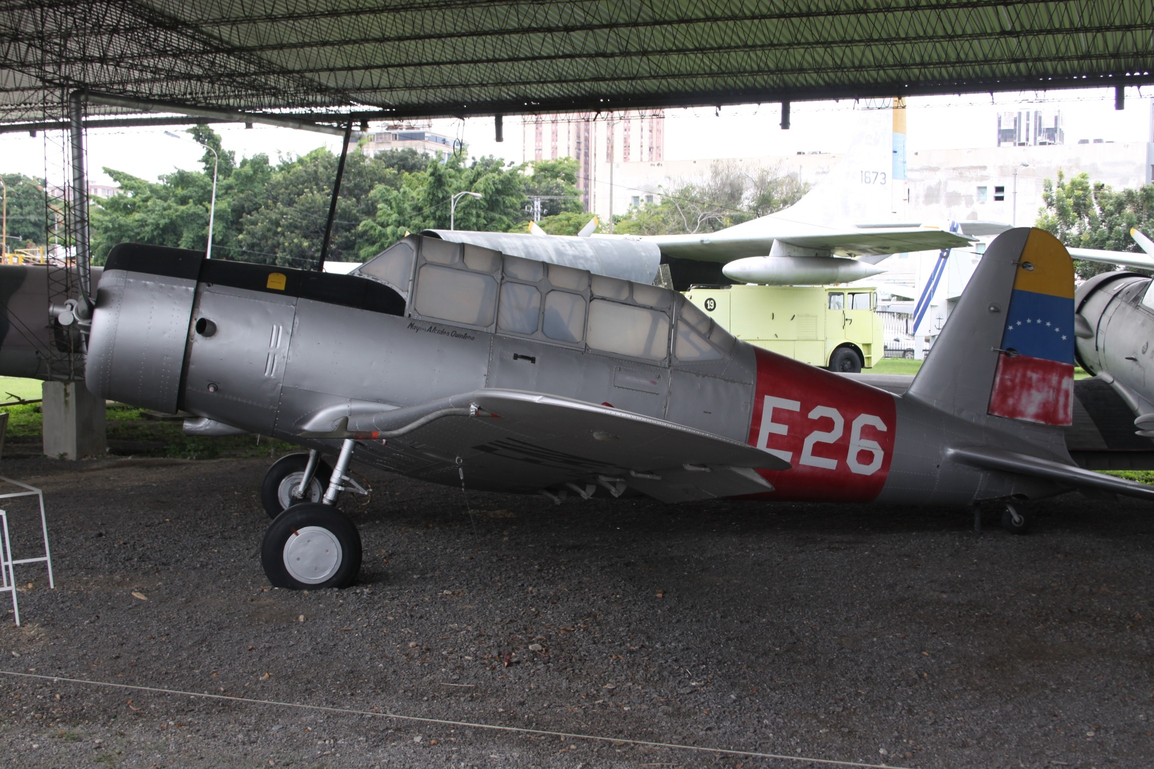 At Museo Aeronáutico de Maracay